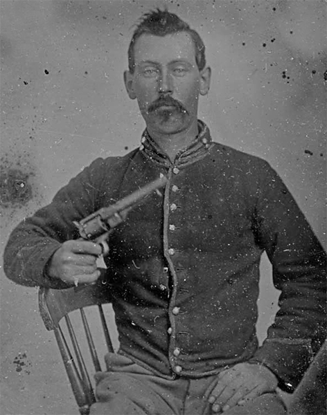 Photograph of Dick Liddil during American Civil War holding a revolver